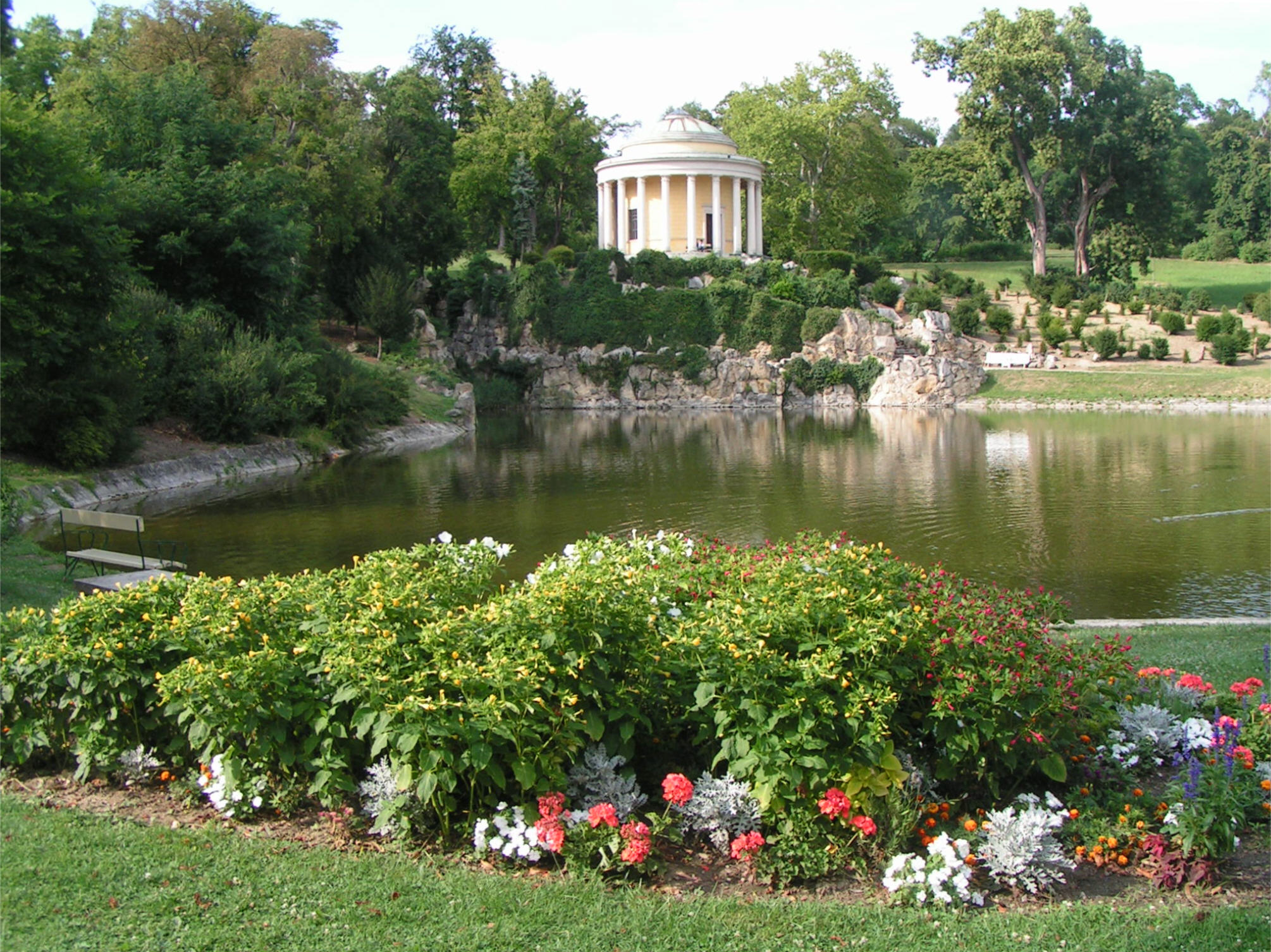 Leopoldine Temple in the park of Esterházy Castle in Eisenstadt